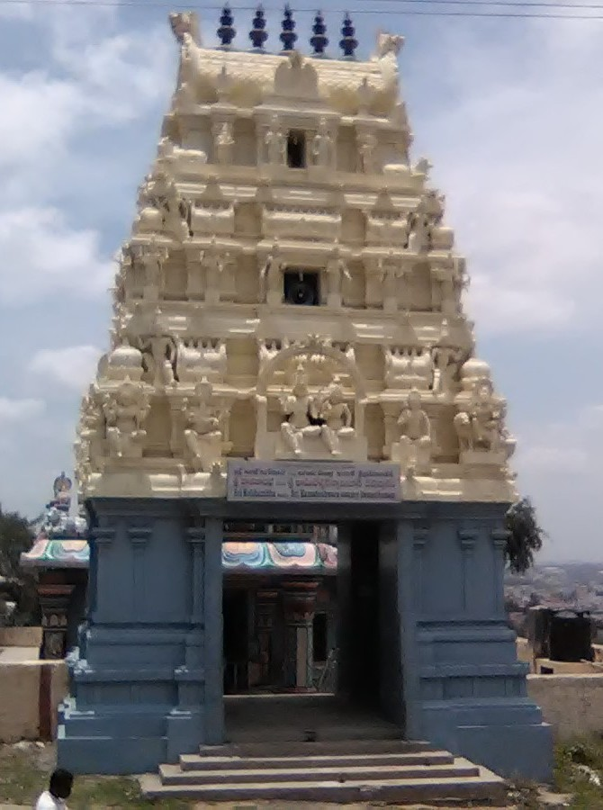 ஒசூர் காளிகாம்பாள் காமட்டீசுவர் இராசகோபுரம்